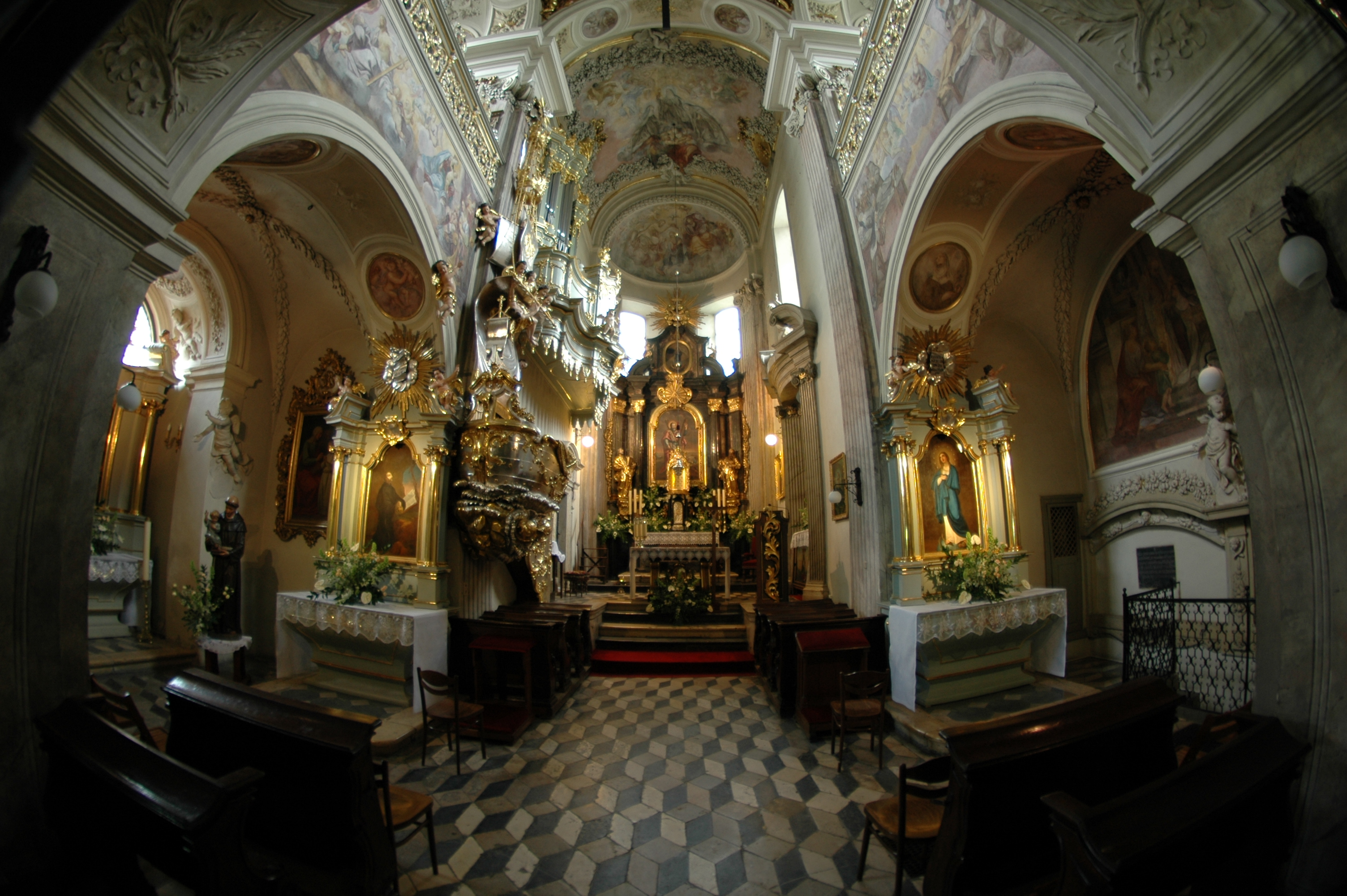 Cracow, St Andrews Church - interior